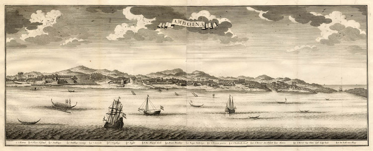 Amboina - Valentyn ,1724-26.